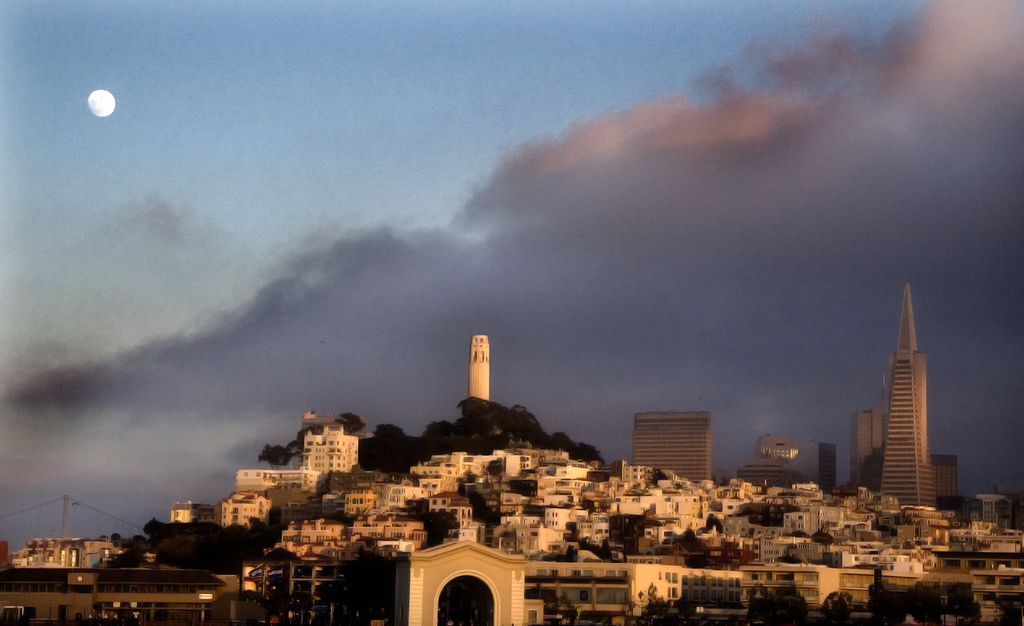 A view of Telegraph Hill from the San Francisco Bay. Coit Tower stand atop the hill. The Bay Bridge can be seen to the left, and the Transamerica Pyramid is captured in the right. Photo by John Curley.